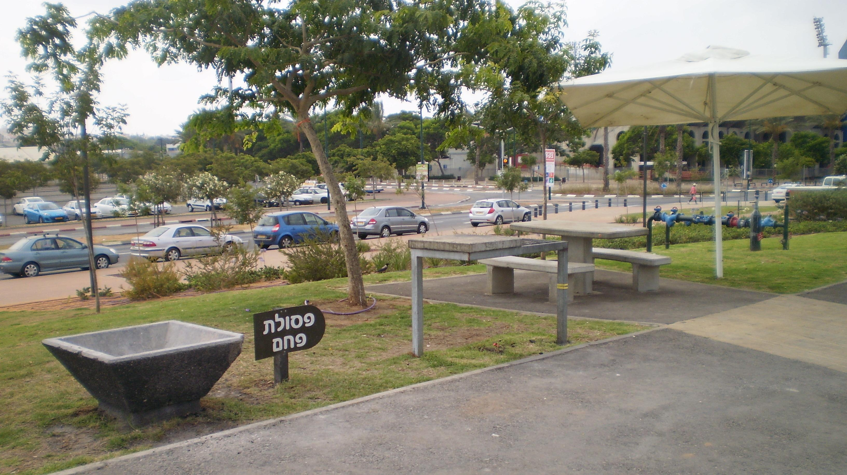 Grill (מנגל) corner at Herzliya park